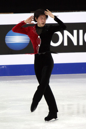 Guan Jinlin performs a scratch spin during his short program at the 2008 World Junior Championships. He placed 4th in this segment of the competition and went on to place 3rd overall, winning the bronze.